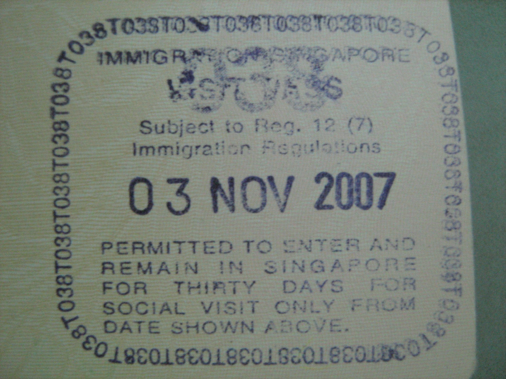 A Singaporean entry stamp in a Malaysian passport. The Ts on the border of the stamp depicts that the holder entered Singapore via the Tuas Checkpoint.